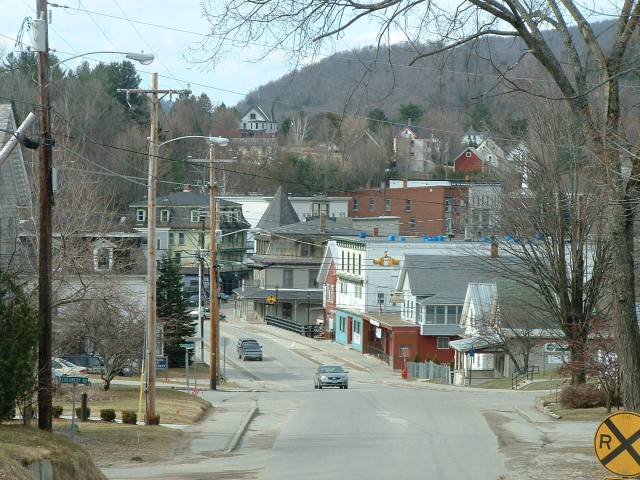 North Main street of Hardwick, Vermont taken by Dave Mitchell